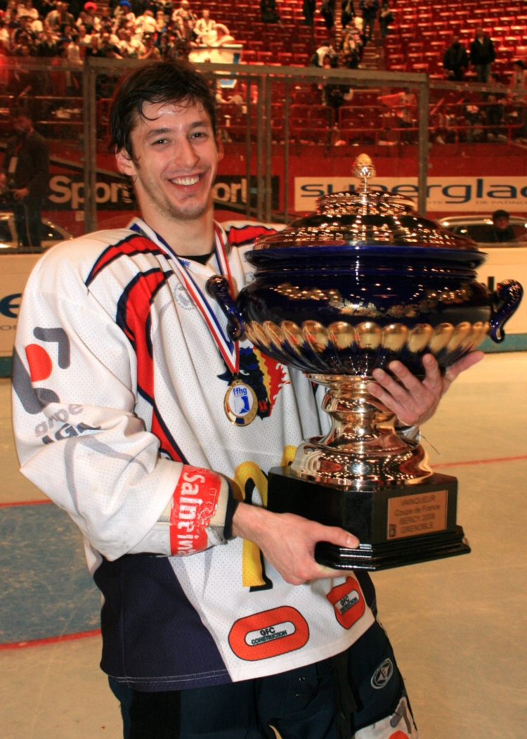 Christophe Tartari, winner of the French Cup 2008 with Grenoble.